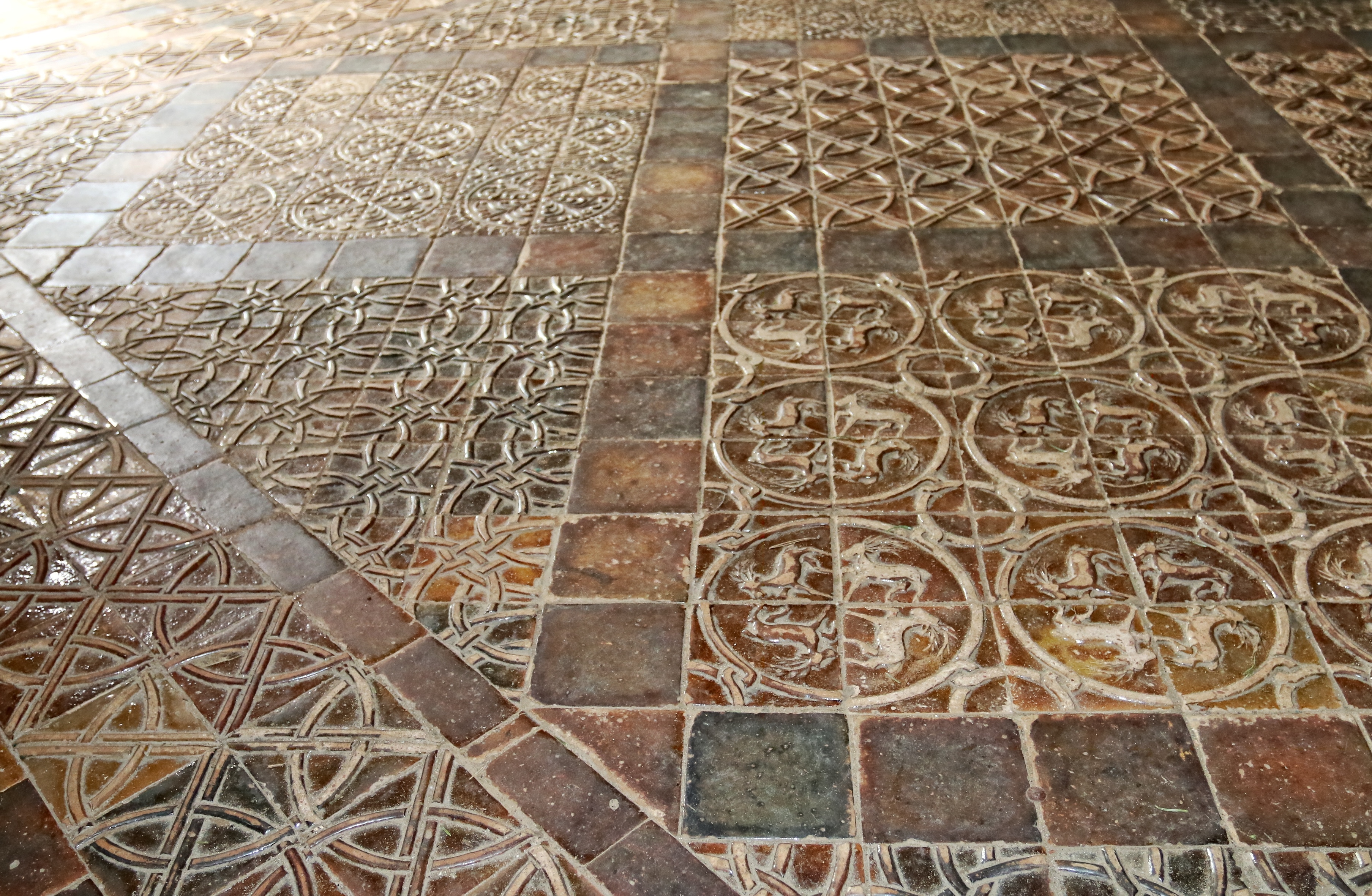 Floor in the church Saint Giles in Inowłódz